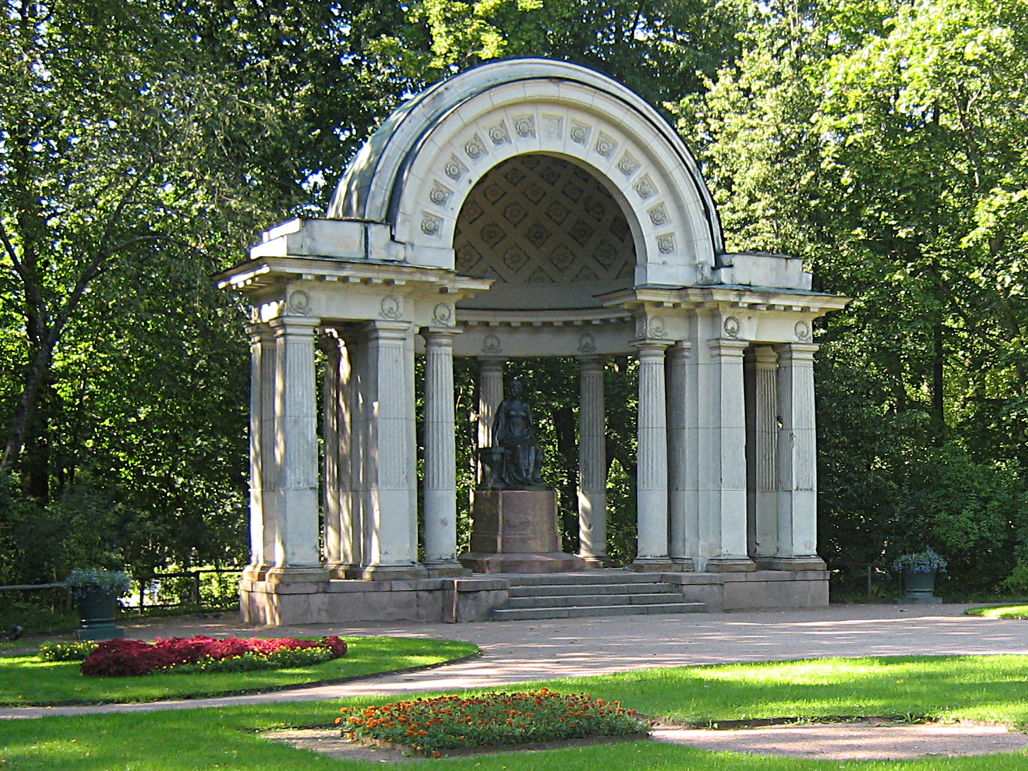 Pavlovsk (Russia), The Rossi Pavilion